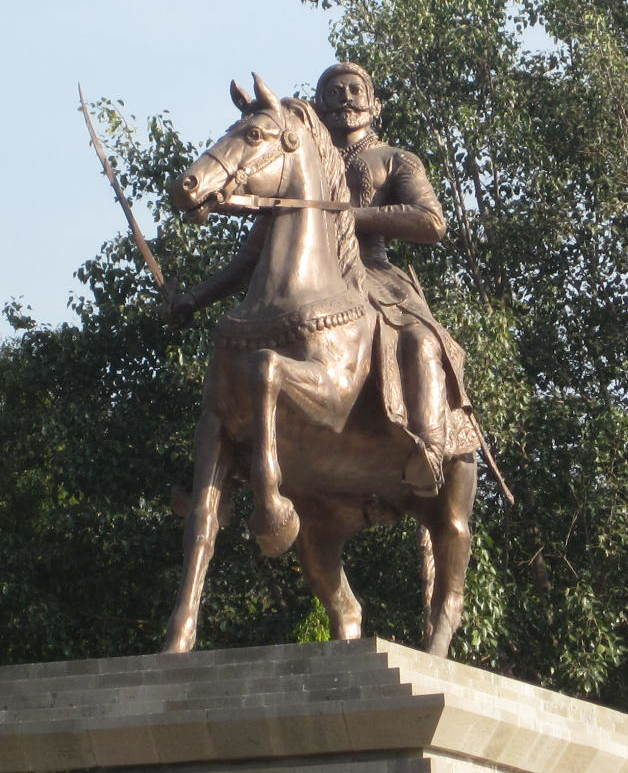 Indian Maharaja - Shivaji Raje Bhosale memorial at National Defence Academy (NDA) complex, Pune